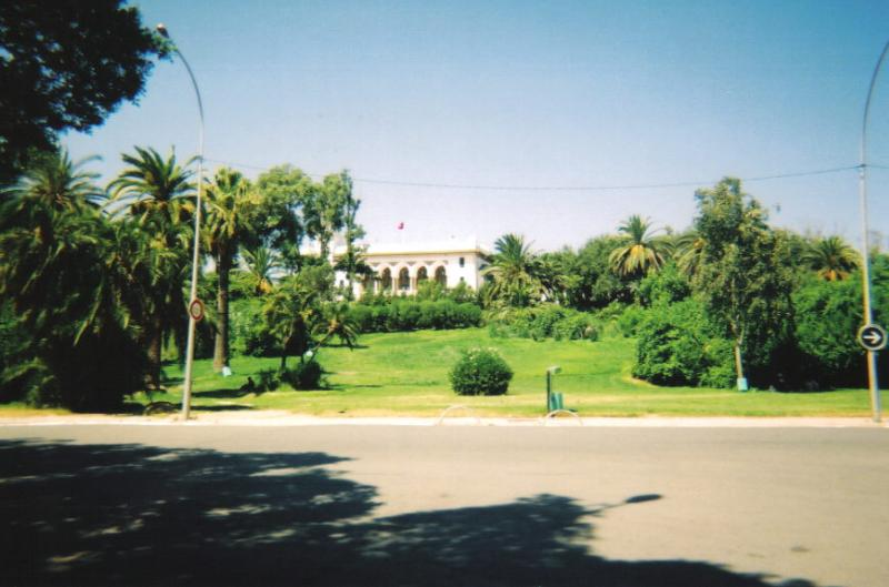 Belvedere Parc in Tunis (Tunisia)